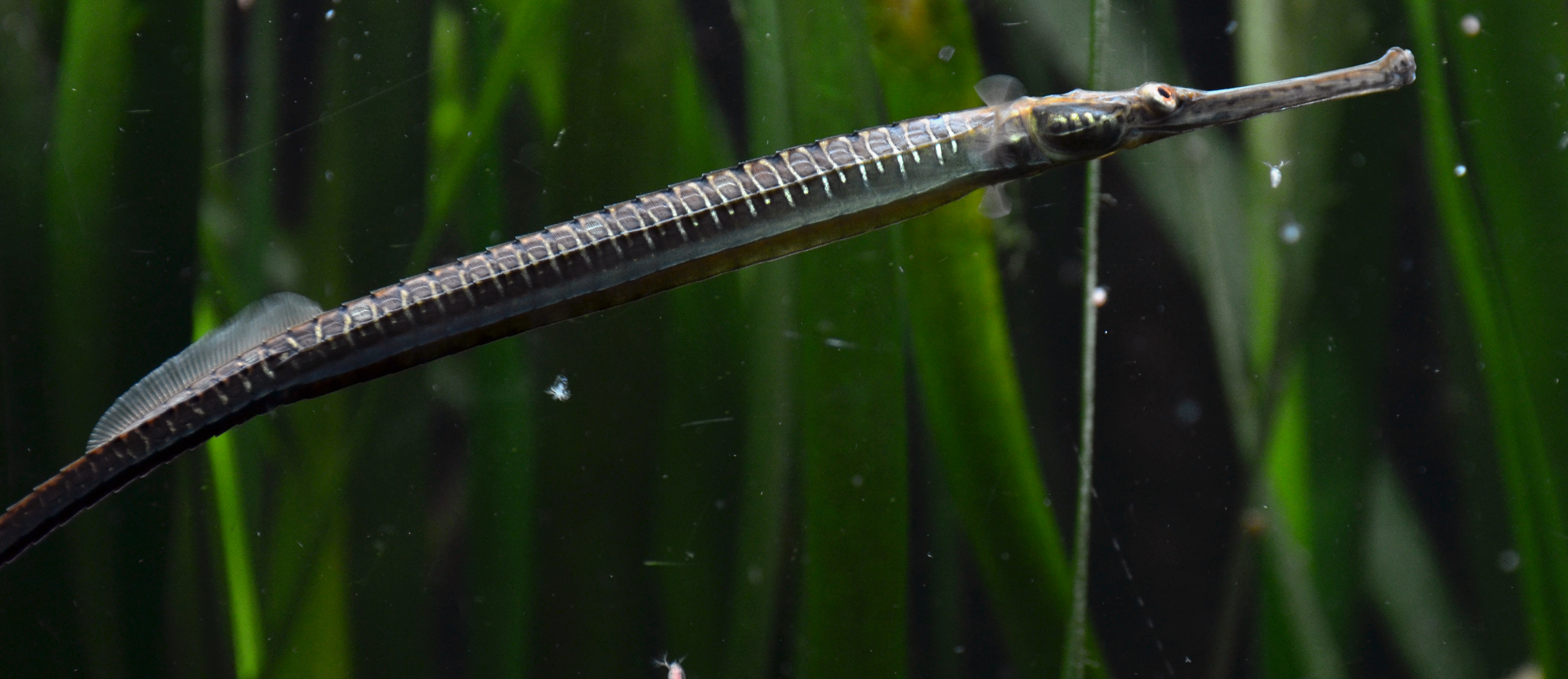 Long-snouted freshwater pipefish ( Doryichthys boaja ) in Cologne Zoo.